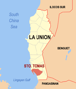 Map of La Union showing the location of Santo Tomas